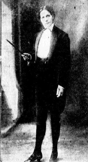 This image shows Edmunda Eliason following Oscar Eliason's death in Australia in 1899, where he had been a magician performing as "Dante the Great". The caption says: "As she looks in her husband's clothes performing the tricks he performed."